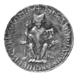 Janik Archbishop of Gniezno